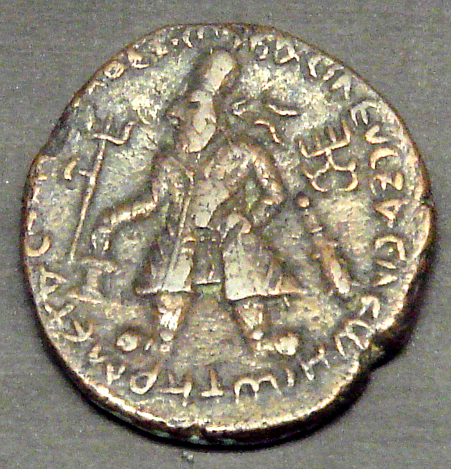 Coin of Vima Kadphises. Musée Guimet. Personal photograph 2006.